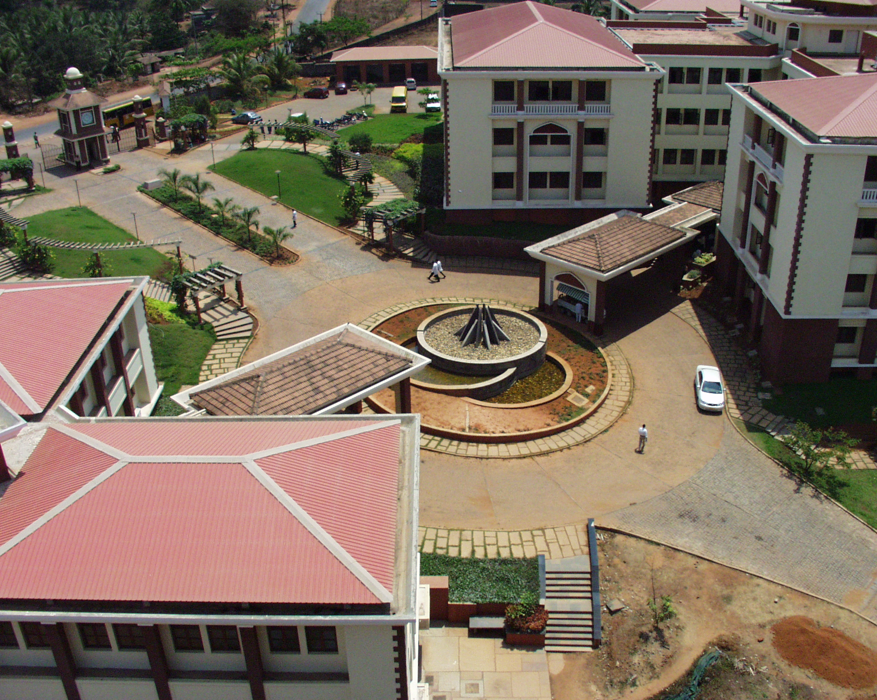 YENEPOYA CAMPUS